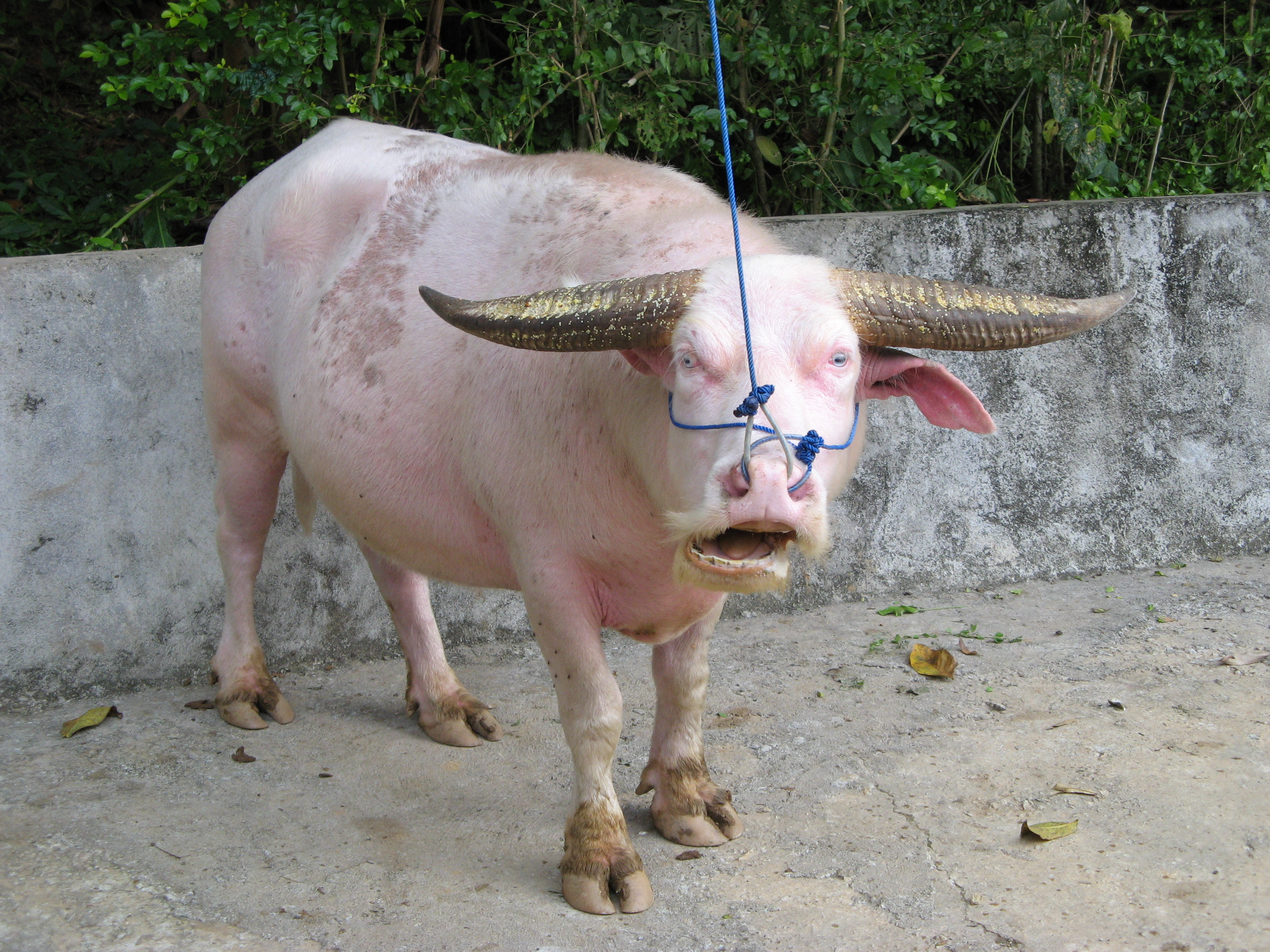 Tikala Village, Tana Toraja The white buffalo shown here, seeming to rage against his fate, is cruelly tethered for the slaughter. Albino buffaloes are more rare, and therefore more valuable, than the usual variety. The sacrifice, of one such animal, brings additional blessings to a person's funeral or memorial feast.